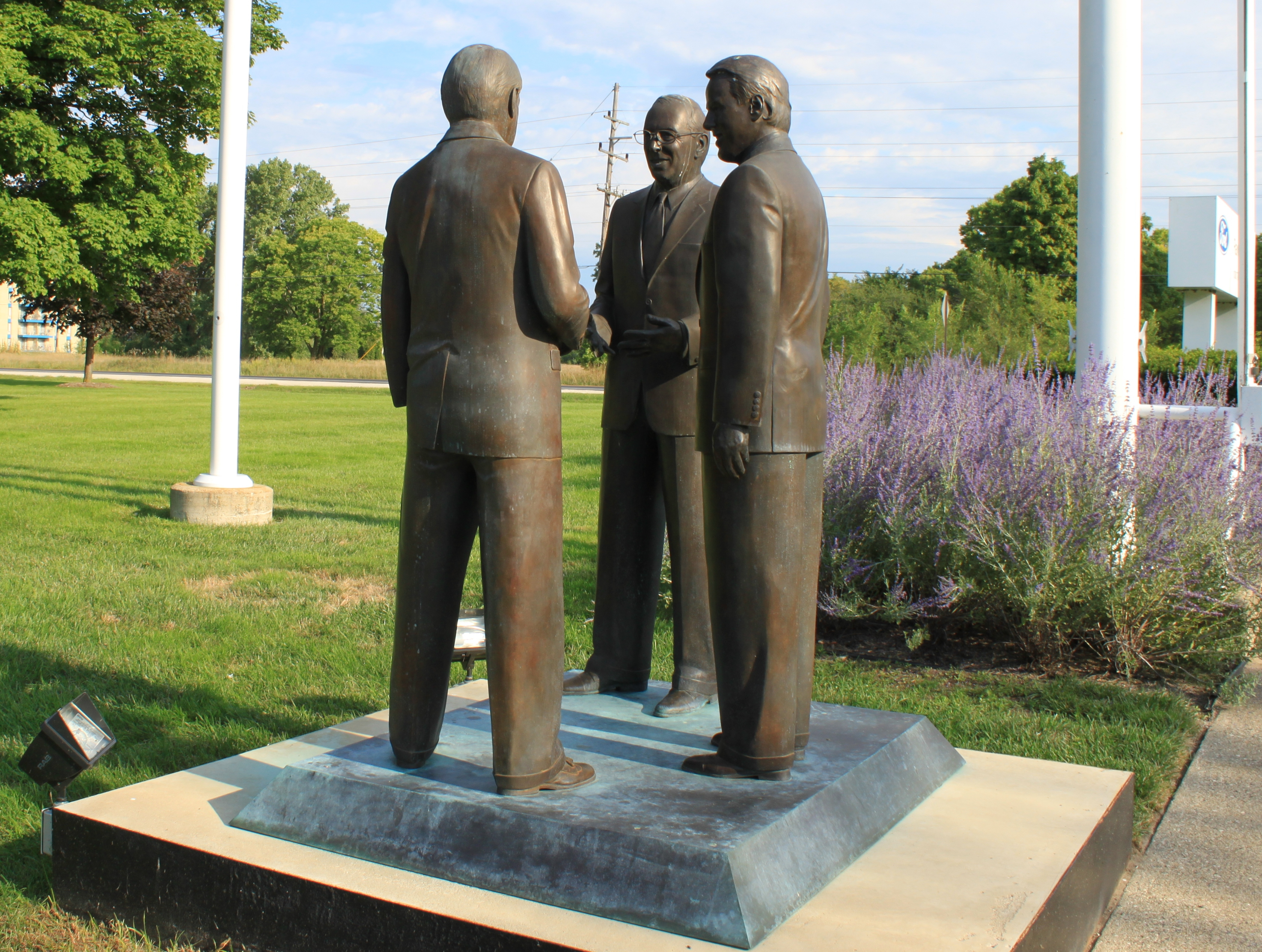 Statue of Stephen Yokich (middle) in between Peter Pestillo (left) and Willian Clay Ford, Jr (right). at the Ford Rawsonville Plant. Credit to my sister Teri Hurst for researching the identity of the subjects.